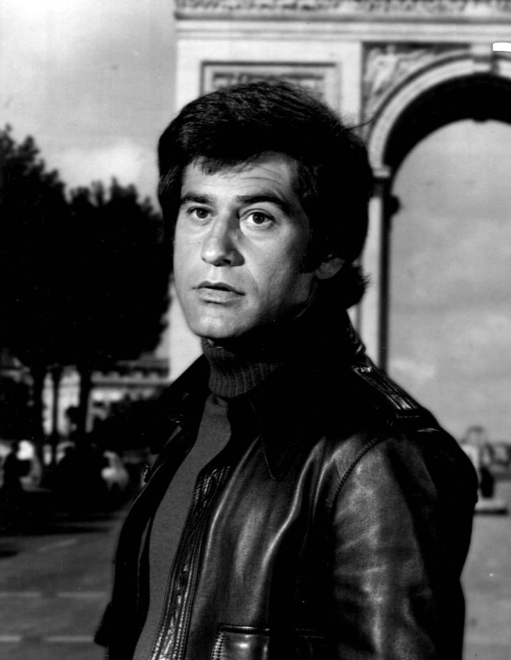 Photo of James Farentino as Jefferson Keyes from the television program Cool Million, which was part of the NBC Wednesday Mystery Movie trilogy.